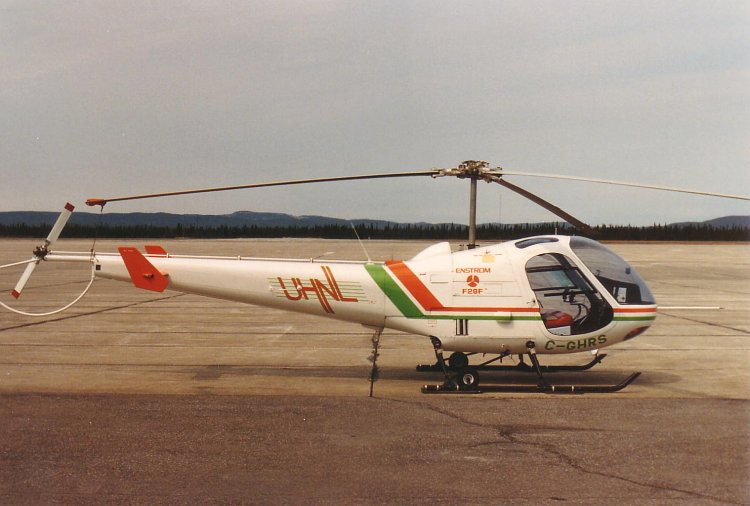 I took this photo of a Universal Helicopters Enstrom F-28F in Goose Bay Labrador in 1988.